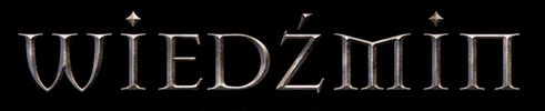 Polish logo of The Witcher.